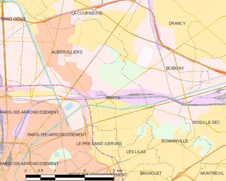 Map of French municipality Pantin